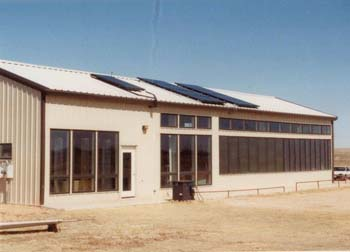 The Alternative Energy Institute Solar Energy Building